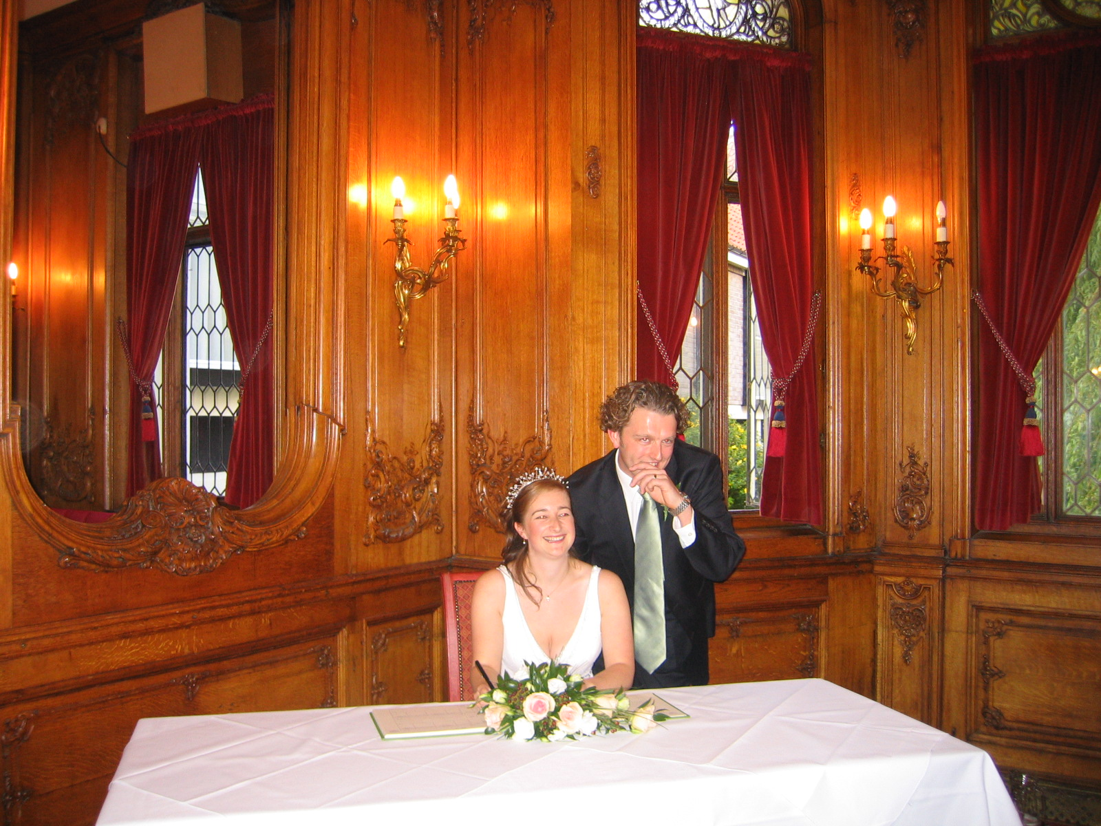 Image taken by myself